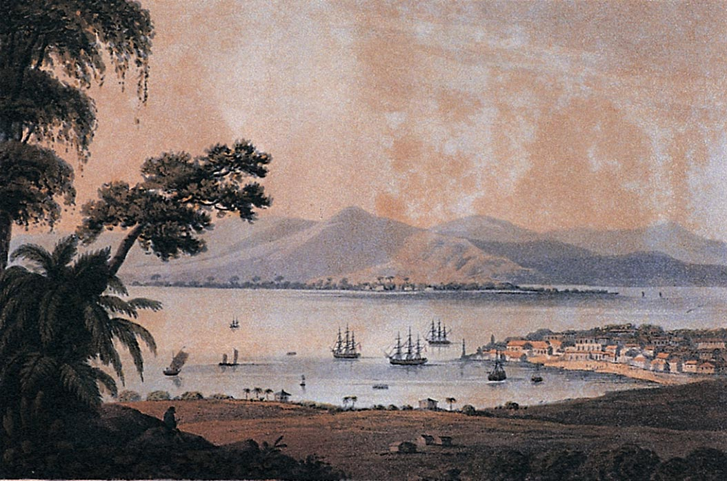 Title: View Overlooking Georgetown Media: Print 1814 Width: 220 mm (8.7 in) Height: 140 mm (5.5 in) Year of creation: 1811